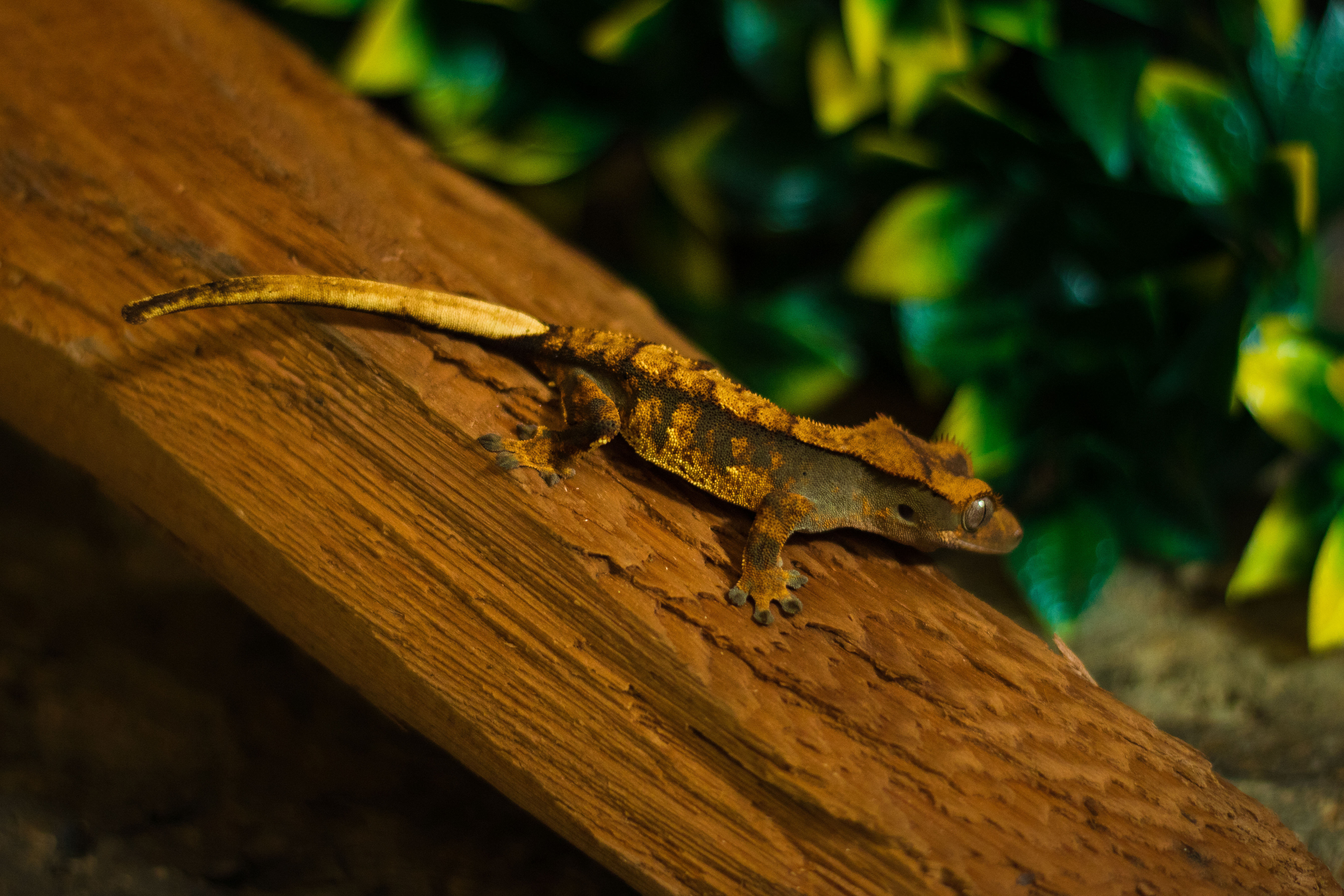 Crested gecko with extreme tricolor harlequin pattern